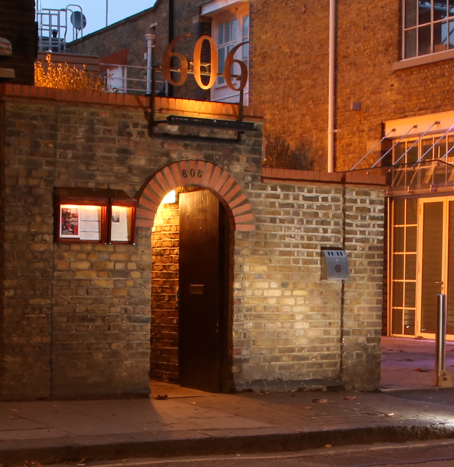 The 606 Club is a live music venue and Club in Chelsea London specialising in jazz, blues & Latin music.